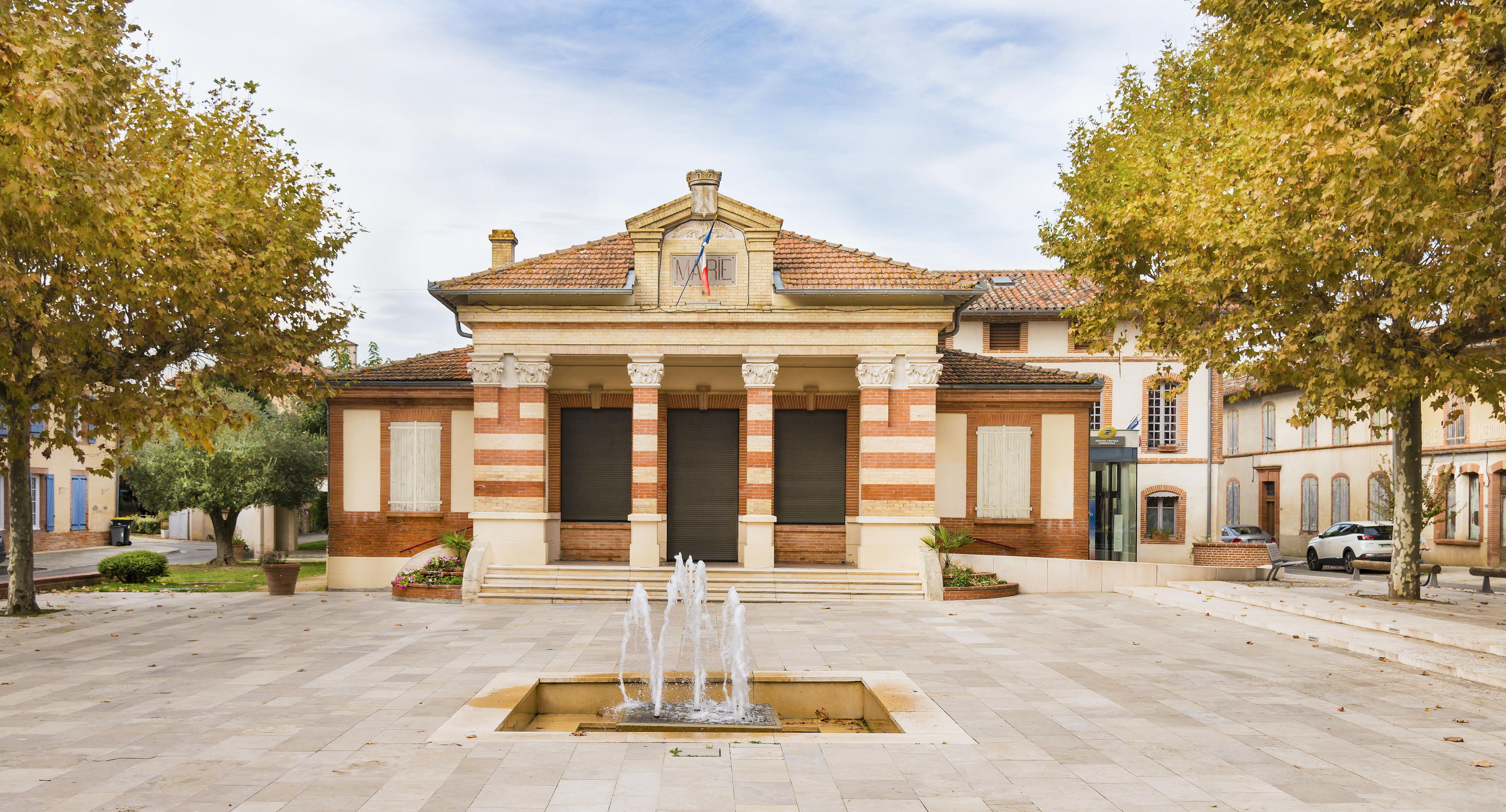 Escatalens Tarn-et-Garonne, France - Facade of Town hall.